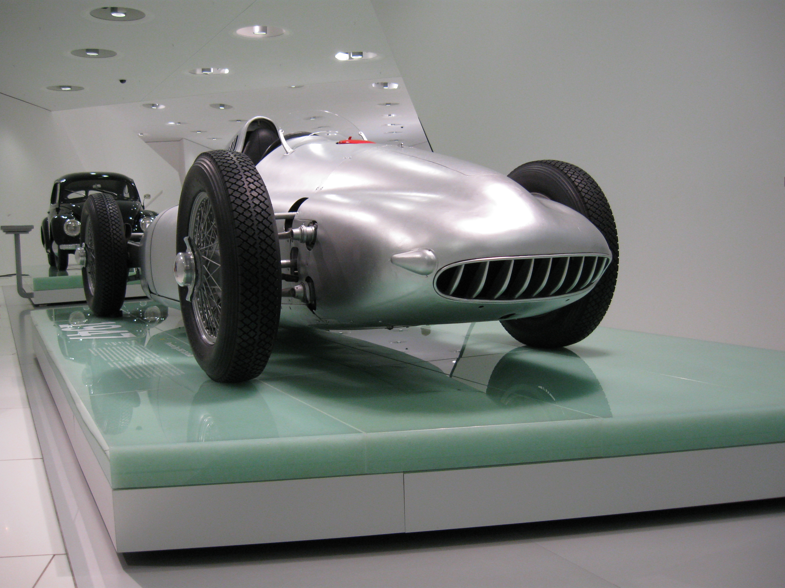 Cisitalia race car designed by Ferdinand Porsche and never raced. Picture taken at the new Porsche factory museum.